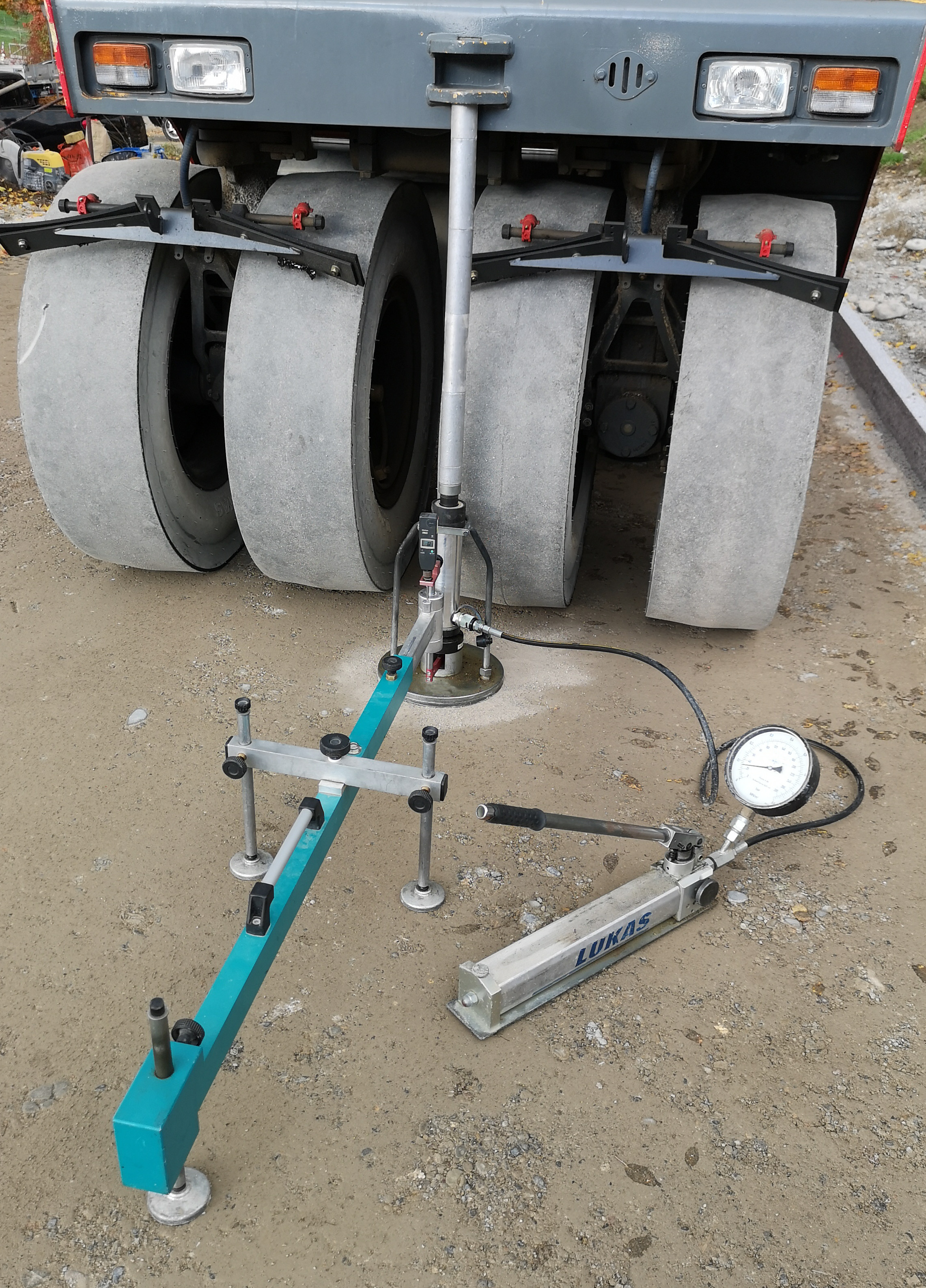 plate-loading test